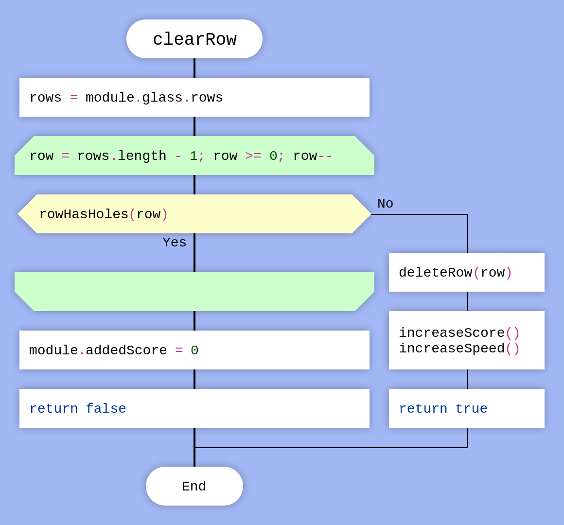 Remove a filled line from the grid, increment score and game tempo